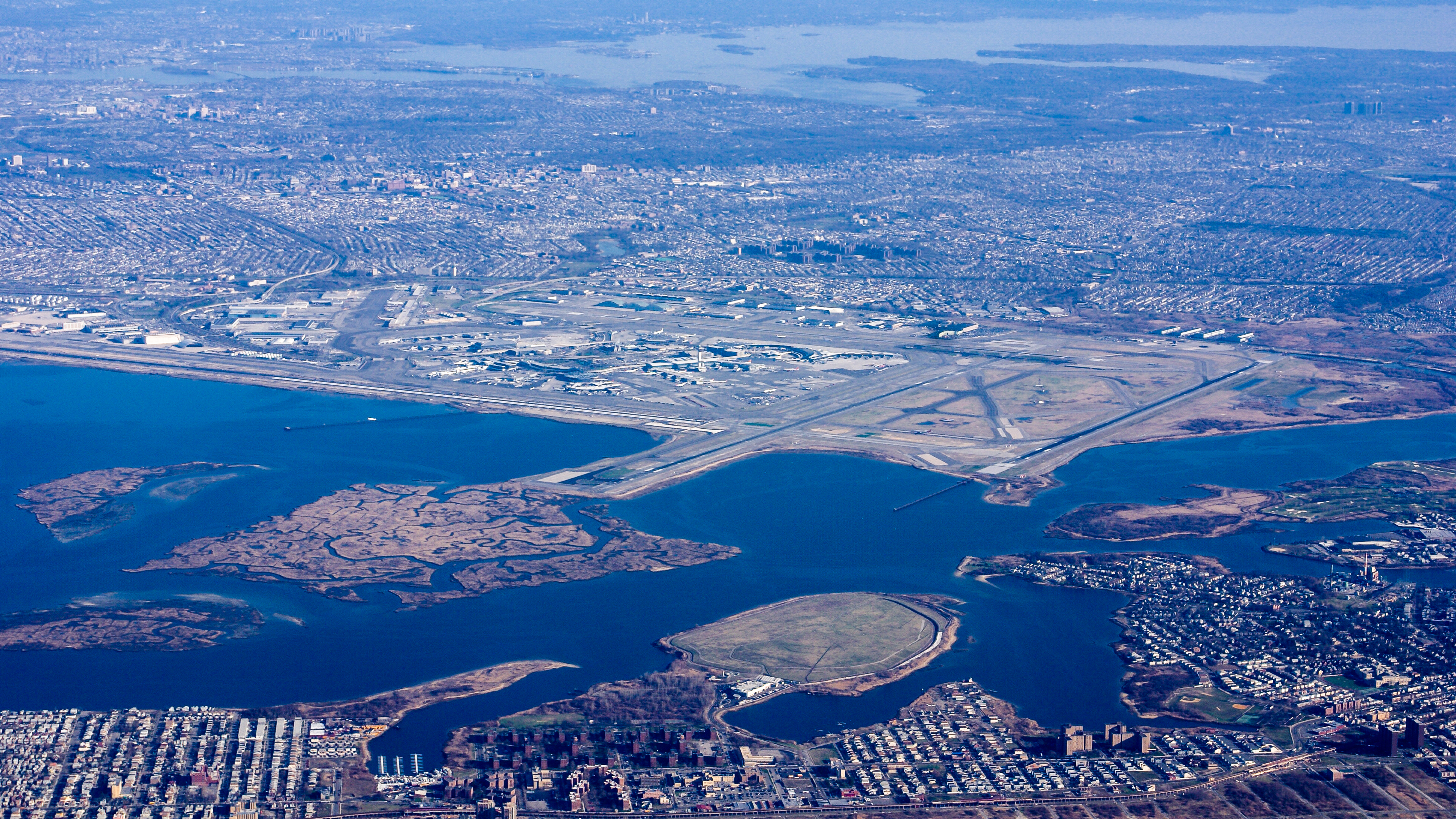 JFK Airport